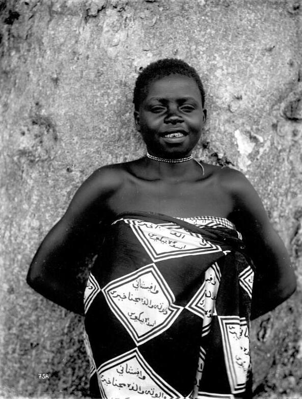 Negermädchen mit angespitzten Zähnen ("Negro woman with sharpened teeth")